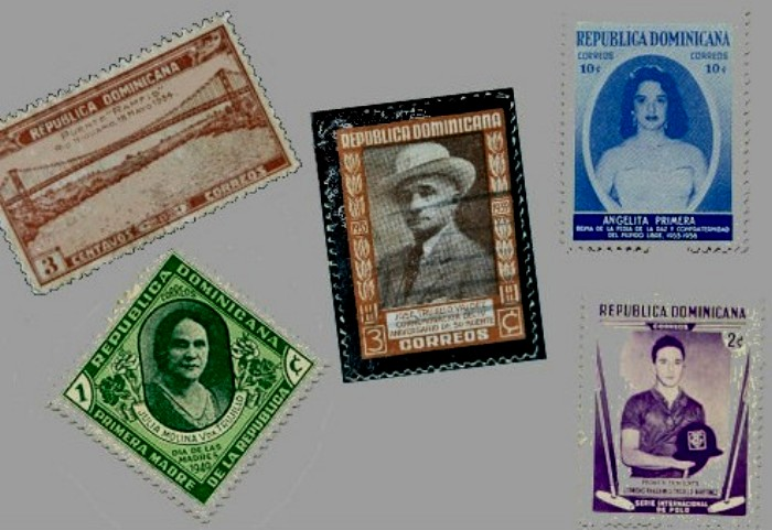 Postage stamps honoring members of Dominican dictator Rafael Trujillo's family. Top left, 1934 stamp issued in commemoration of the opening of the Ramfis Bridge, named in honor of Trujillo's 4-year old son Ramfis (a second stamp showed the new General Trujillo Bridge). Bottom left: 1940 Mother's Day stamp showing Trujillo's mother Julia Molina Trujillo. Center, 1939 stamps isued in commemoration of the 4th anniversary of the death of Trujillo's father José Trujillo Valdez. Top right, stamp showing daughter Angelita Trujillo, Queen of the December 1955 International Fair of Peace and Brotherhood in Ciudad Trujillo. Botom right: Stamp showing Trujillo's son Rhadames issued to publicize a Jamaica-Dominican Republic polo match in 1959. The portrait of Rafael Trujillo's powerful third wife, Maria de los Angeles M. Trujillo, was shown on a stamp issued only weeks before his assassination in 1961.